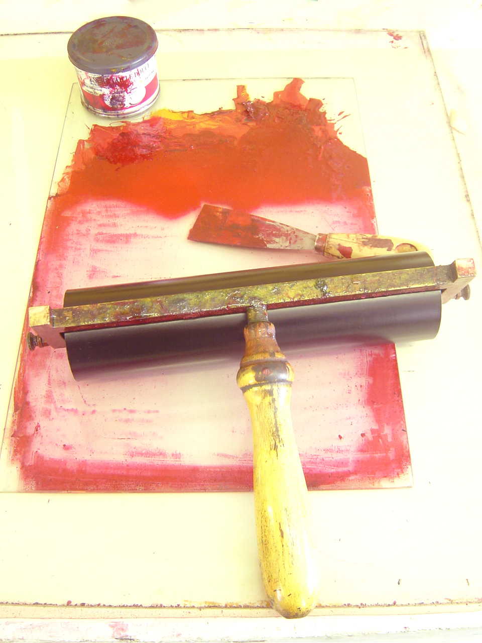 Intaglio printmaking — roller and ink.